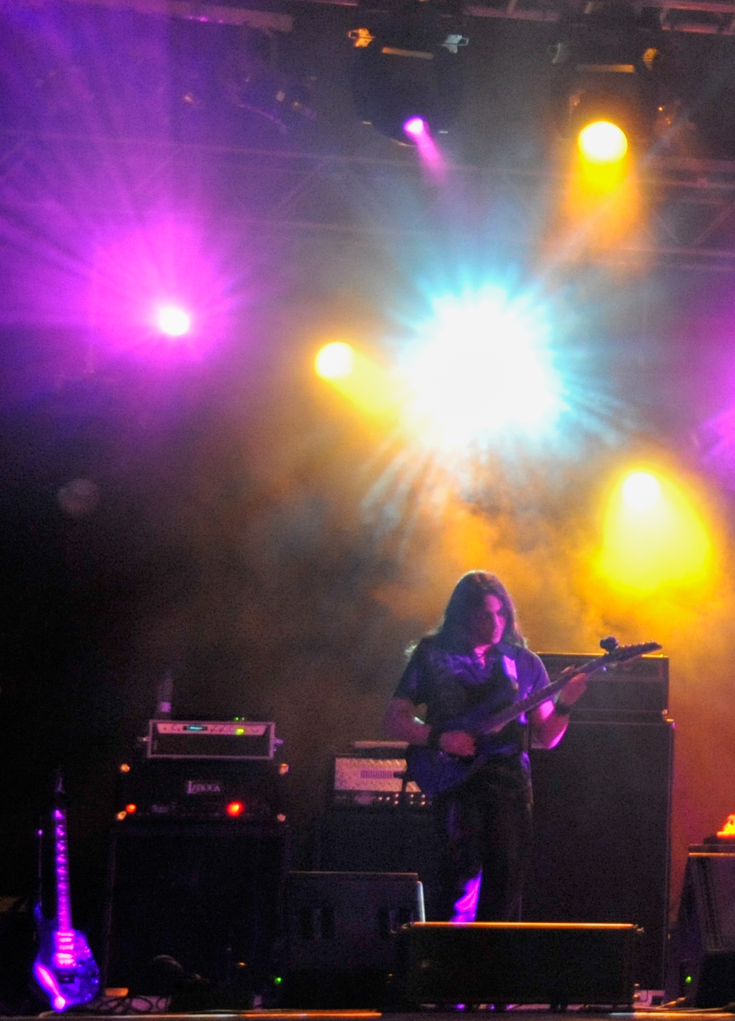 Jesús Díez performing live during Níobeth's show at Viña Rock 2009 in Villarrobledo, Albacete, Spain.